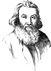 Isaac Baer Levinsohn, a notable Russian-Hebrew scholar, satirist, writer and Haskalah leader, 1788-1860